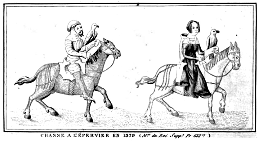 Illustration of hunting with sparrowhawk, 1379.